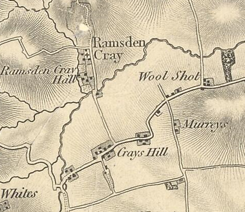 A map of Ramsden Crays from 1805 taken by Ordnance Survey